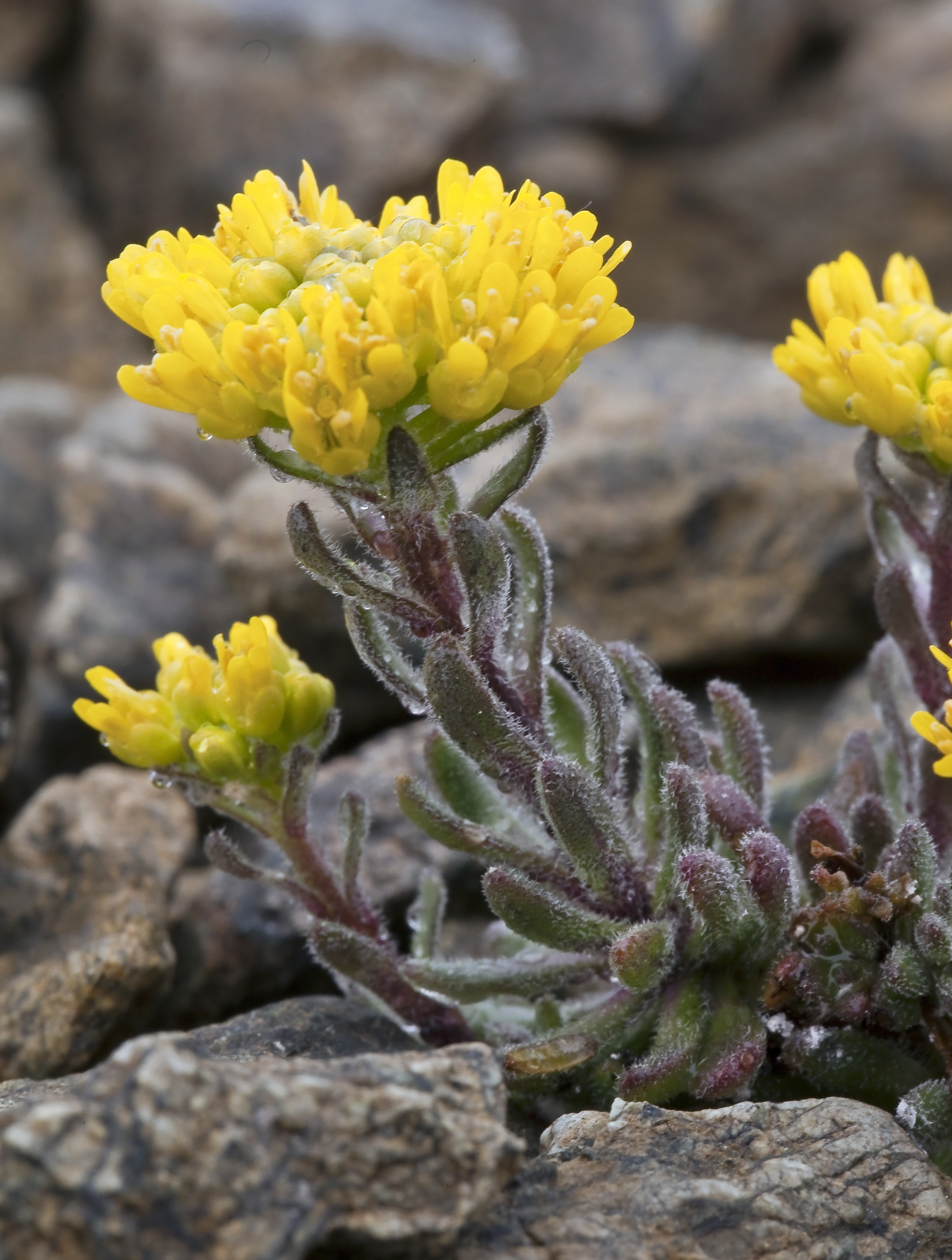 Draba aureola (Mt. Lassen draba). At about 9,000 feet elevation a little northwest of the summit of Mount Eddy, near Trinity/Siskiyou County line, California.